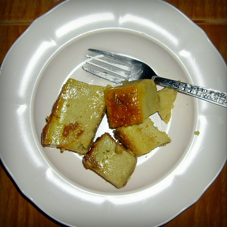 Khanom mo kaeng (Thai: ขนมหม้อแกง) is a sweet baked pudding containing coconut milk, eggs, palm sugar and flour. Sweet fried sliced onions are sprinkled on top. It is a dessert or sweet snack in Thai cuisine.